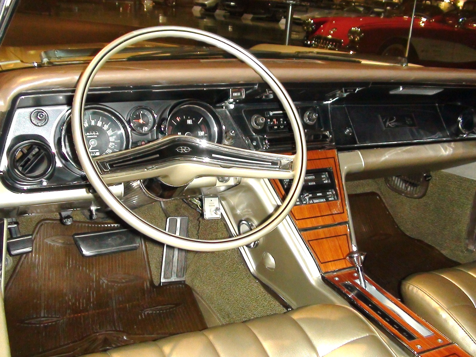 GM Heritage Center.